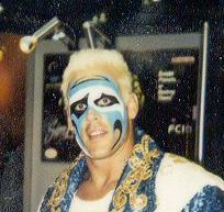 This was a poloroid of Sting and a fan. Cropped to take out the fan and the background.